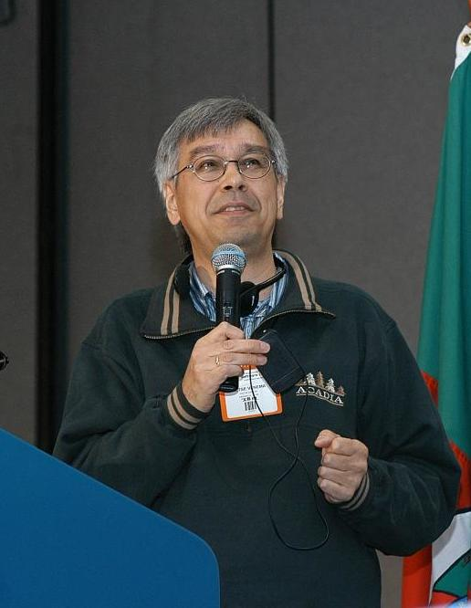 Wietse Venema, creator of the Postfix mail system.